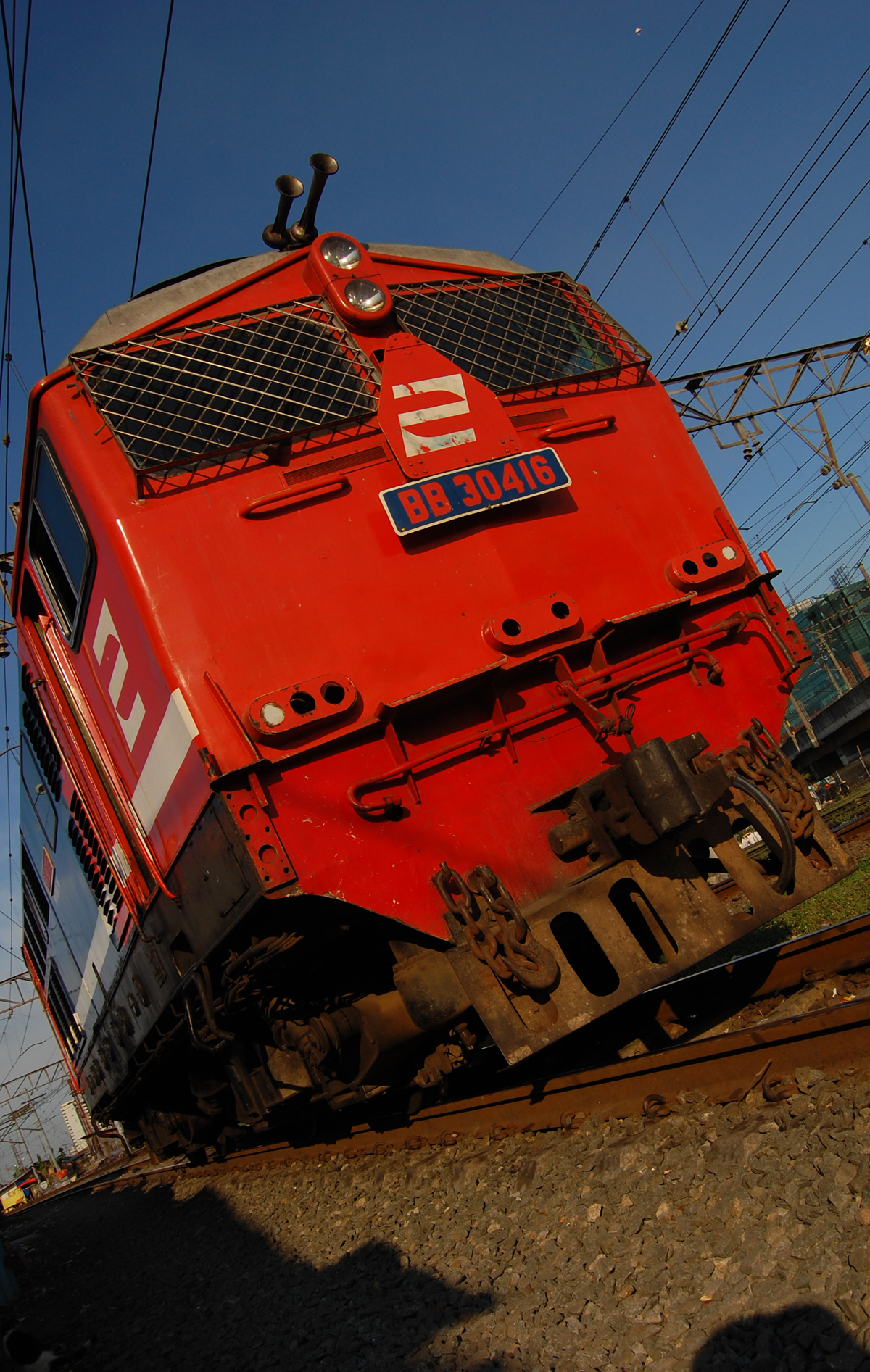 Train in Indonesia.